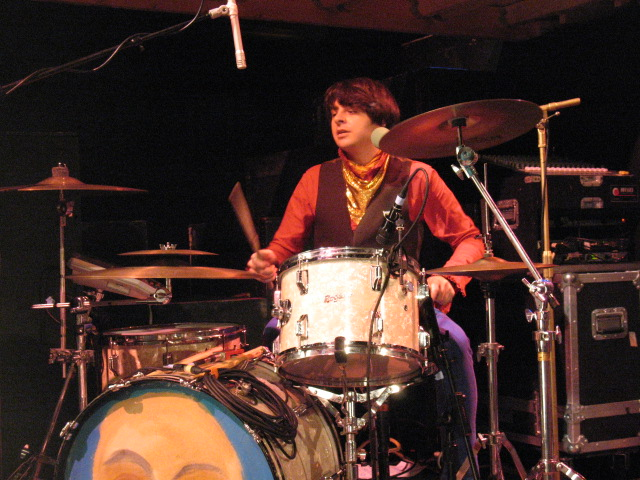 Huggins on drums with of Montreal.